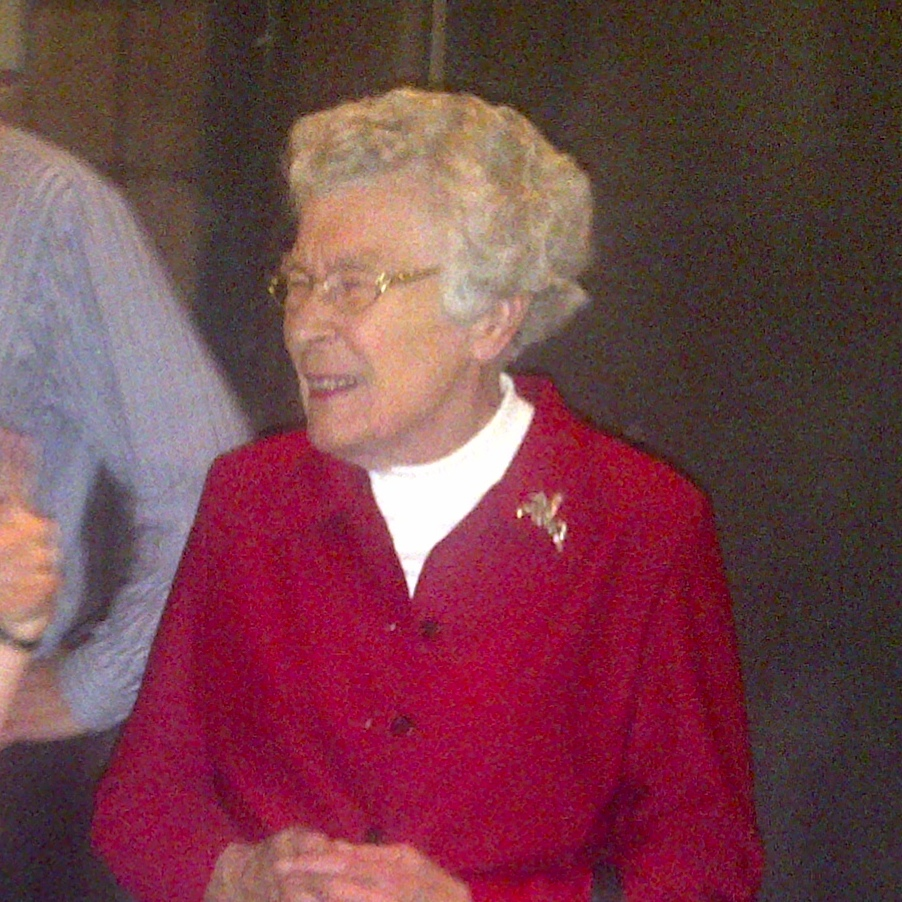 Zena Skinner, TV cook, and Caroline Thomson, BBC Chief Operating Officer, BBC TV 75th anniversary event, Alexandra Palace